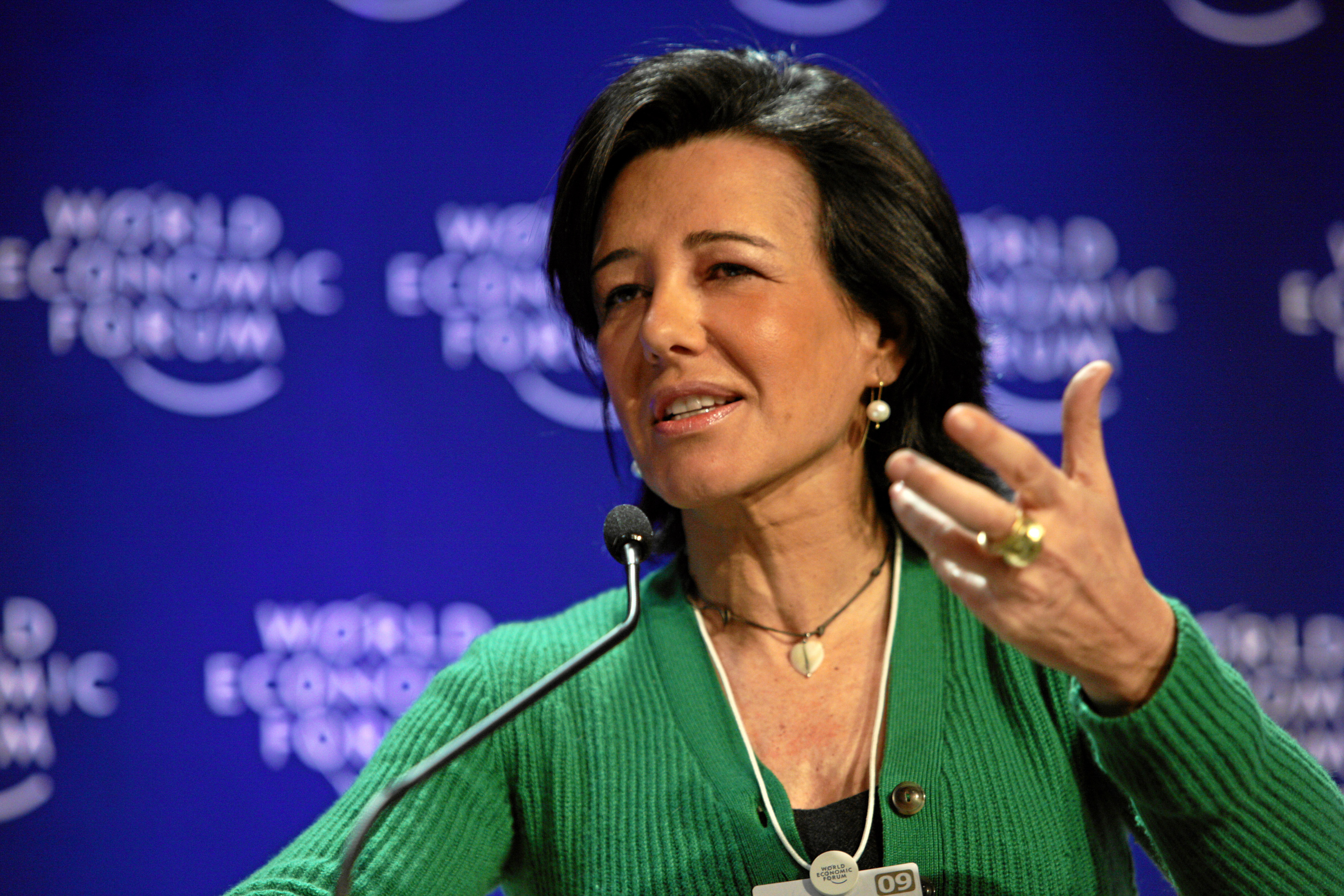 Ana Patricia Botín, Member of the Board, Grupo Santander, Spain, captured at the World Economic Forum Annual Meeting 2009 in Davos, Switzerland, January 29, 2009.